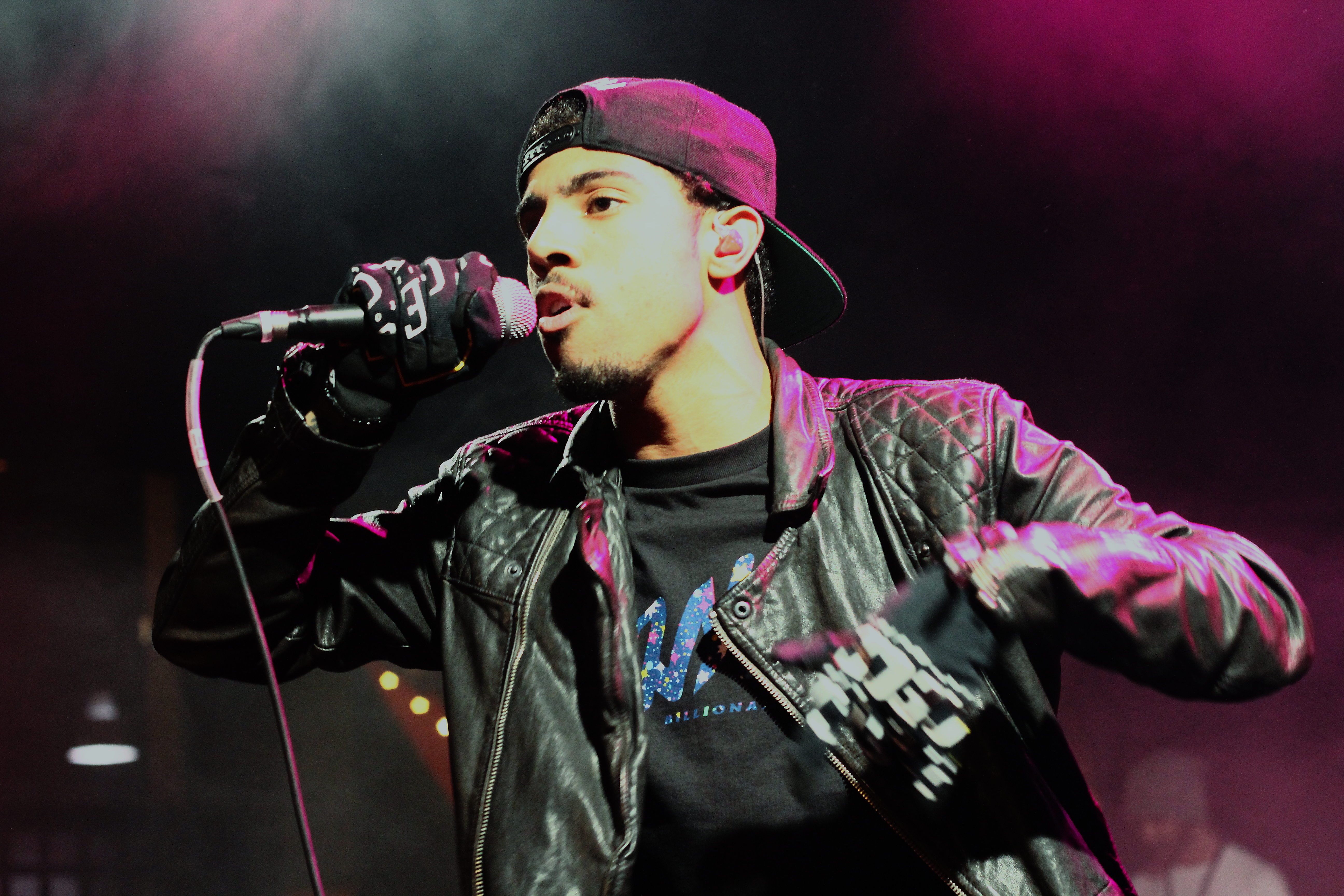 Vic Mensa performing in 2014